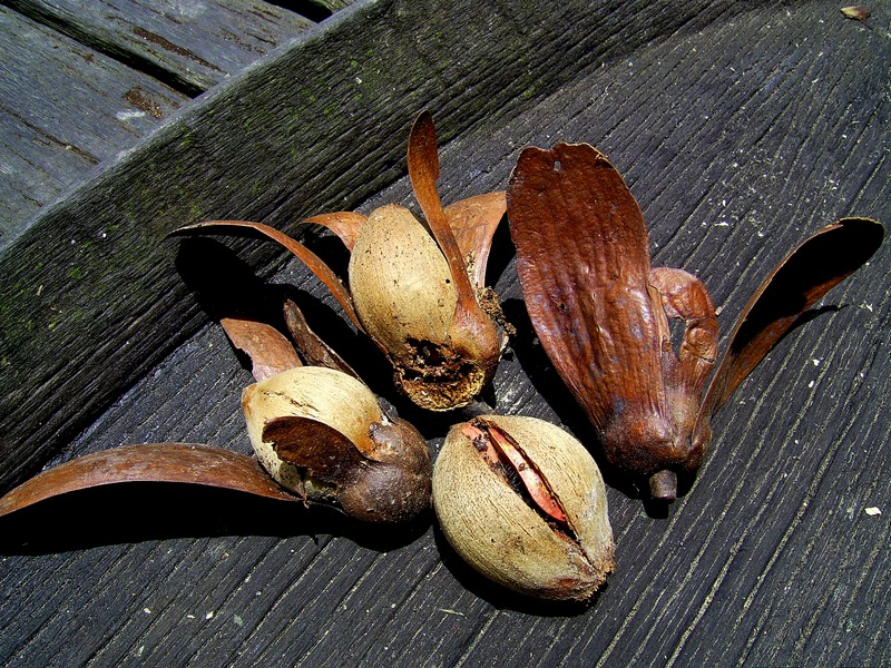 Illipe nut (Shorea sp.), from Sungai Utik, Kapuas Hulu, West Kalimantan, Indonesia